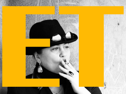 ET (Nov. 2011)